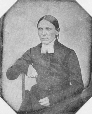 Lars Stenbäck, Finnish poet and priest